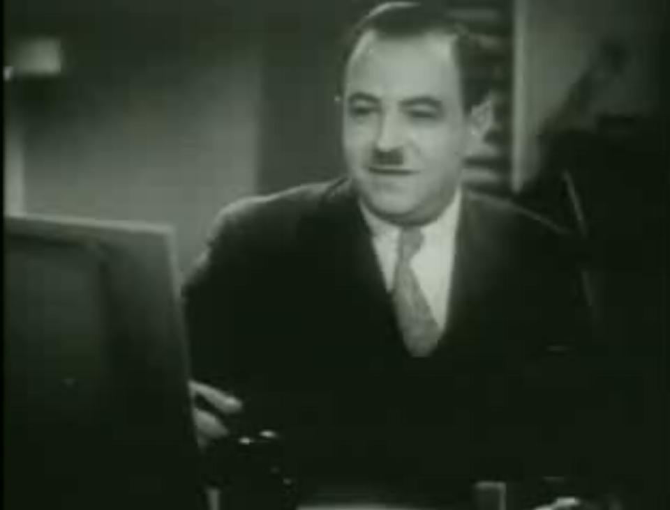 Max Fleischer plays himself in "Betty Boop's rise to fame" (1934). Screenshot.